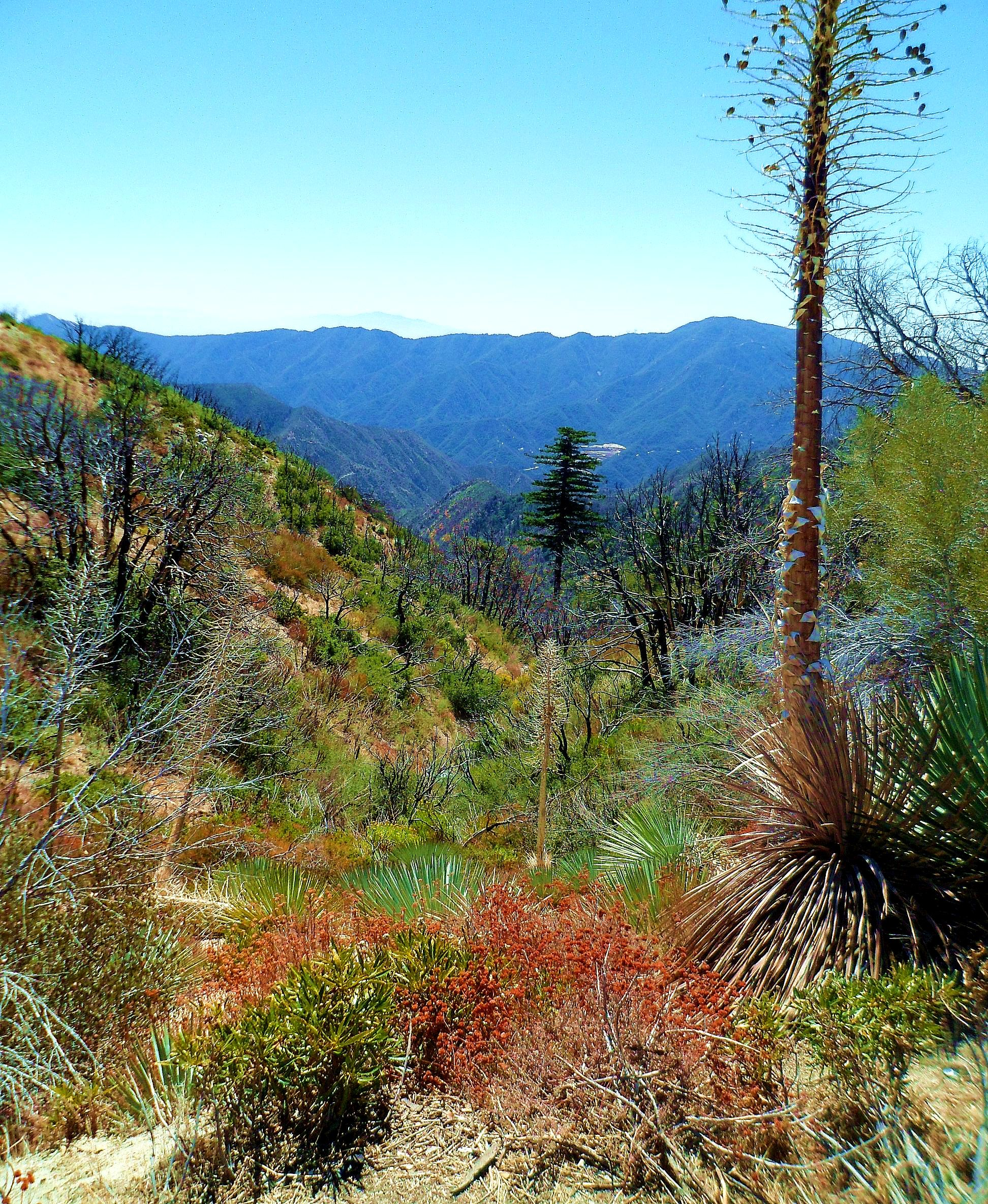 Angeles National Forrest, August 2014, nearly two years after the fire of September 2012; Charred remains of various small trees and shrubs mixed in with the new growth.